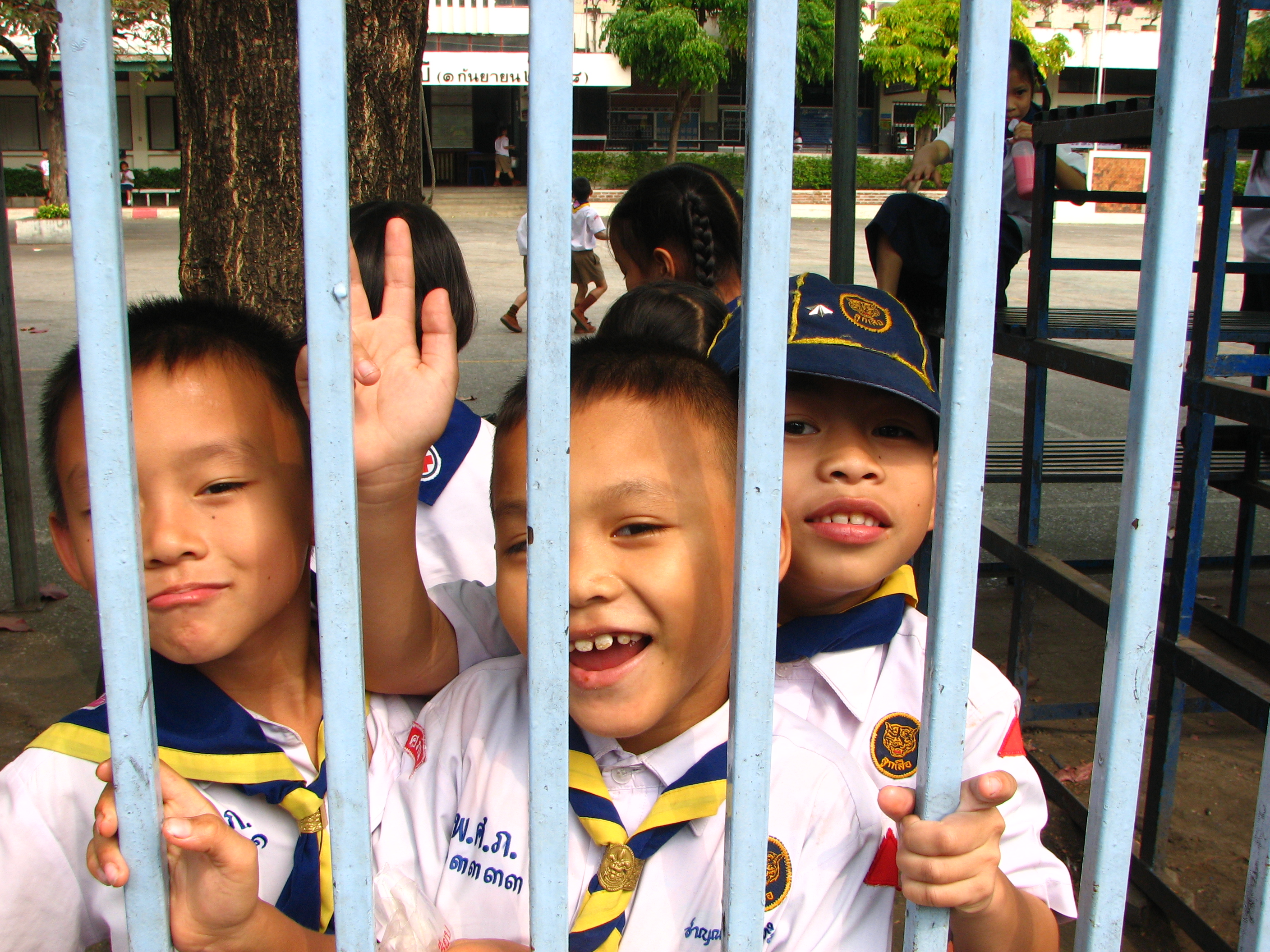 Elementary school students in Chiang Mai